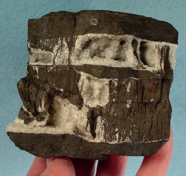 Manjiroite, Todorokite, Calcite Locality: Wessels Mine (Wessel's Mine), Hotazel, Kalahari manganese fields, Northern Cape Province, South Africa (Locality at ) Size: 9.2 x 8.8 x 6.7 cm. Manjiroite and todorokite are RARE to uncommon hydrated manganese oxides. This exceptionally rich and showy specimen consists of bedded, dark gray, lamellar manjiroite altering to todorokite with really neat-looking vugs lined with glassy calcite crystals. Some of the lamellar manganese oxides are chatoyant! A nifty and unusual specimen from the Willy Israel Collection, who purchased this excellent piece from well-known dealer Clive Queit in 1986.